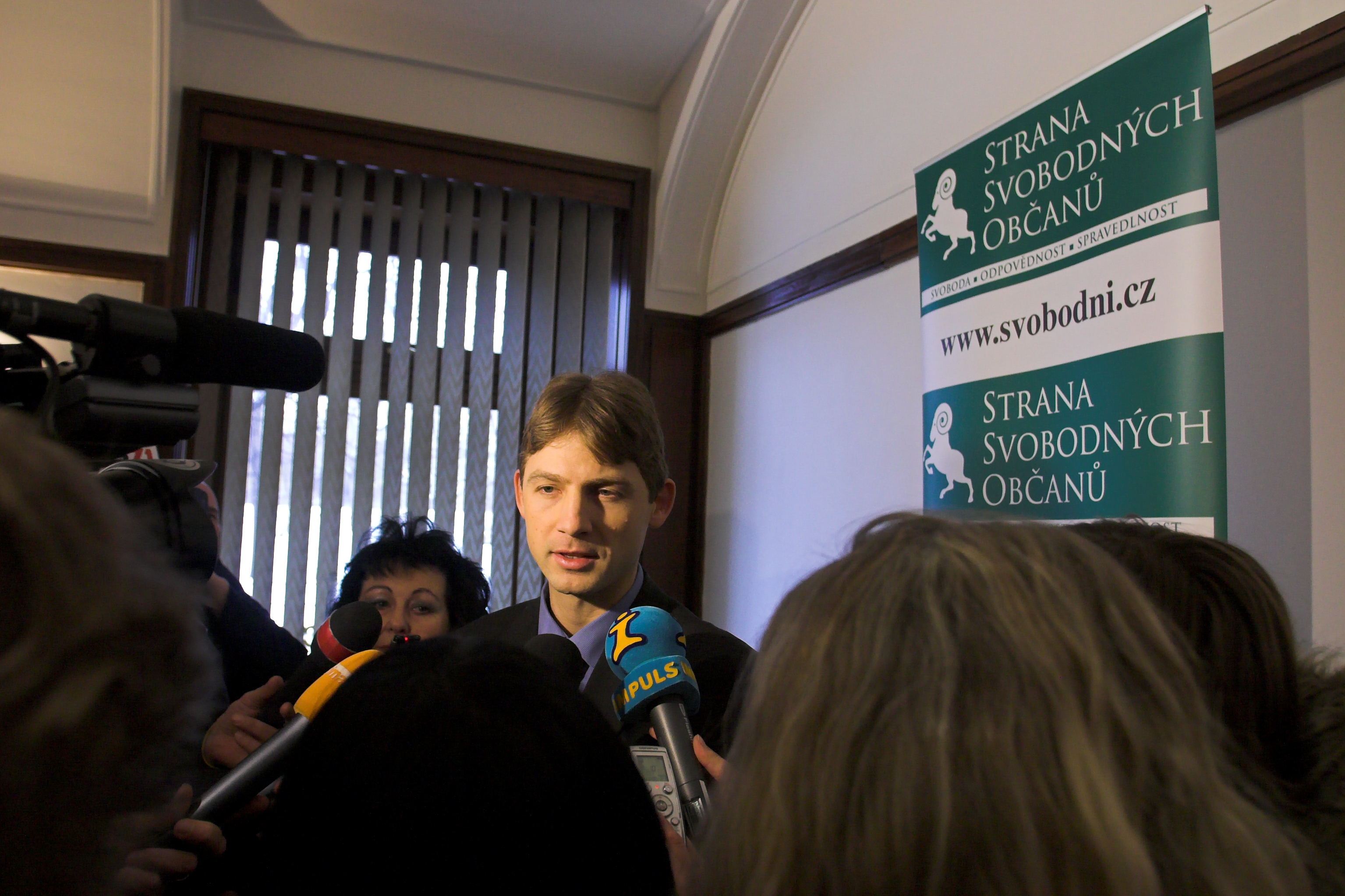 'Petr Mach at first press conference of the Strana svobodných občanů, January 2009, Prague, Czech Republic.